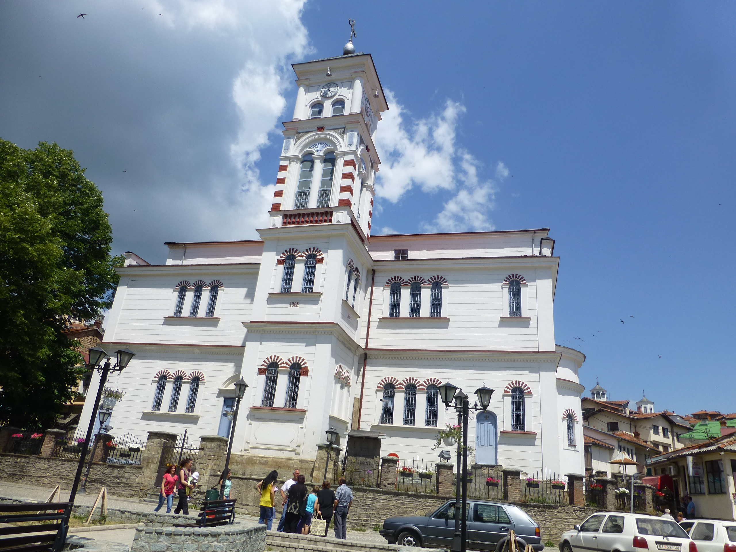 St. Nicholas Church (Kruševo)